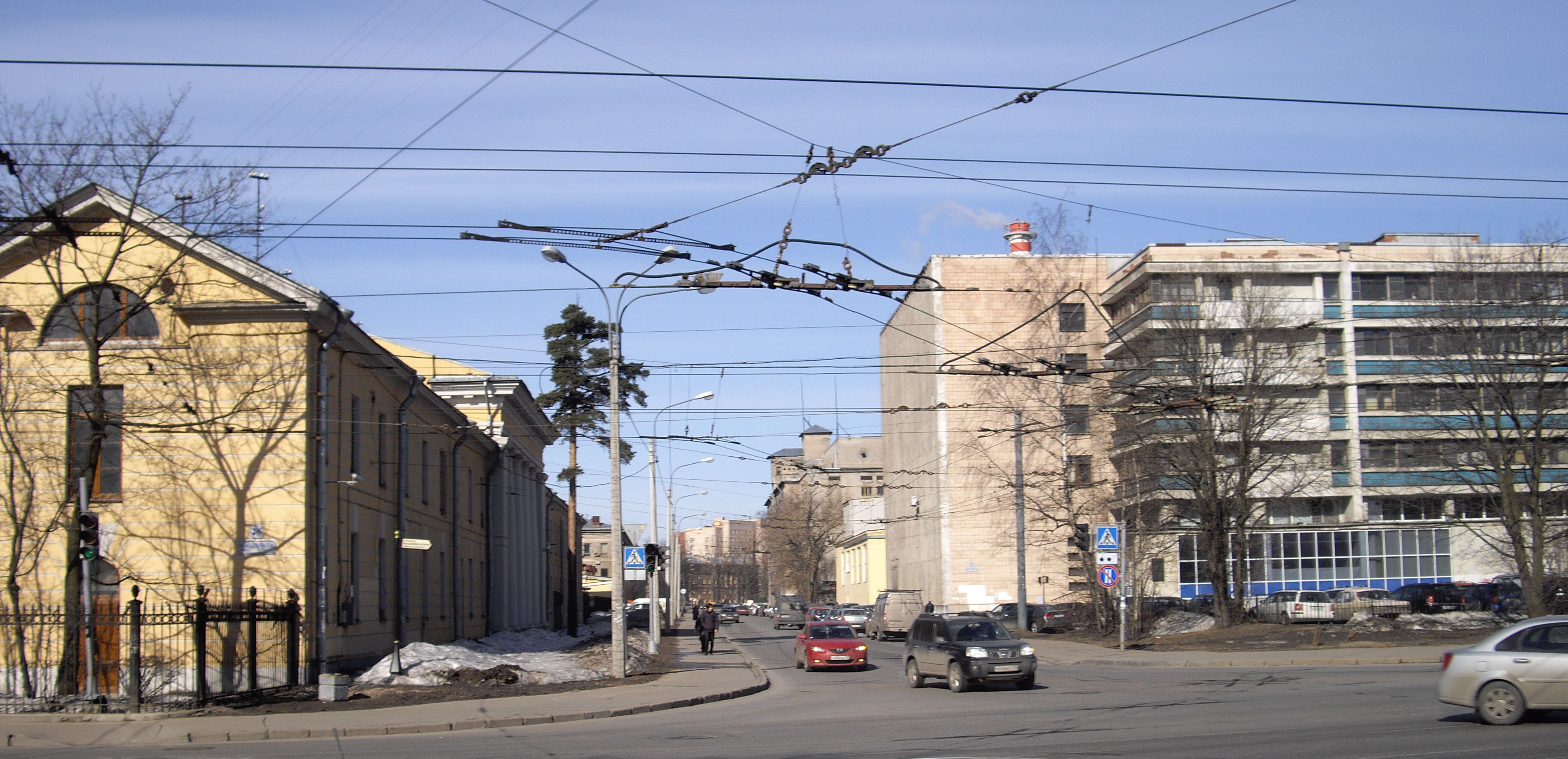 Kurchatov Street in Saint Petersburg, view from the Academician Ioffe Square. To the left and to the right we see two buildings of the Ioffe Institute